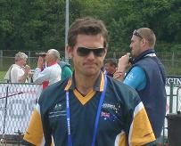 Photograph of the Gold Olympic medalist in 2000, Simon Fairweather, currently coach of the Australian Archery Team, at 2009 Archery World Cup in Porec, Croatia